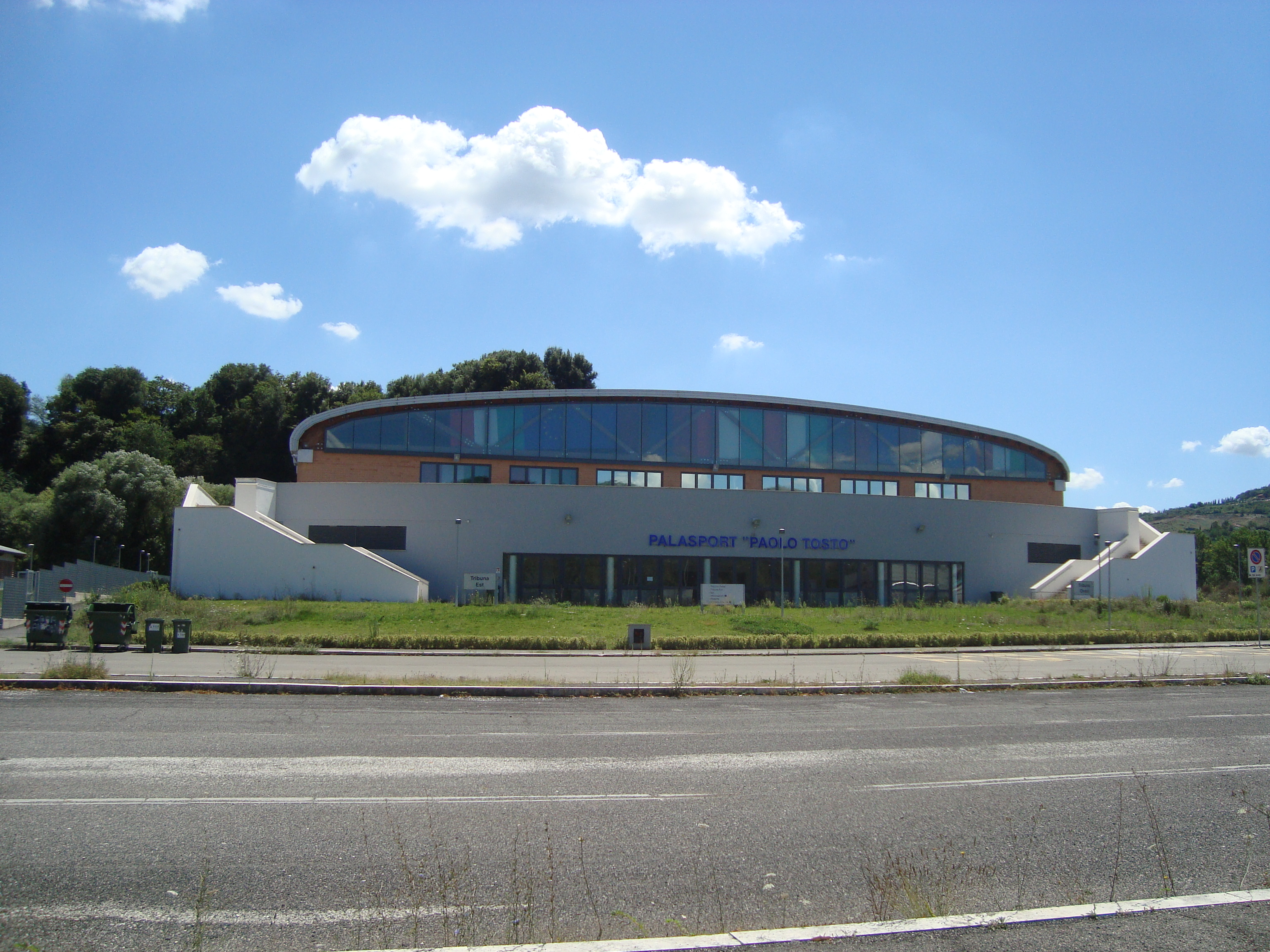 The arena Paolo-Tosto in Tivoli at the multisport-complexe in Arci